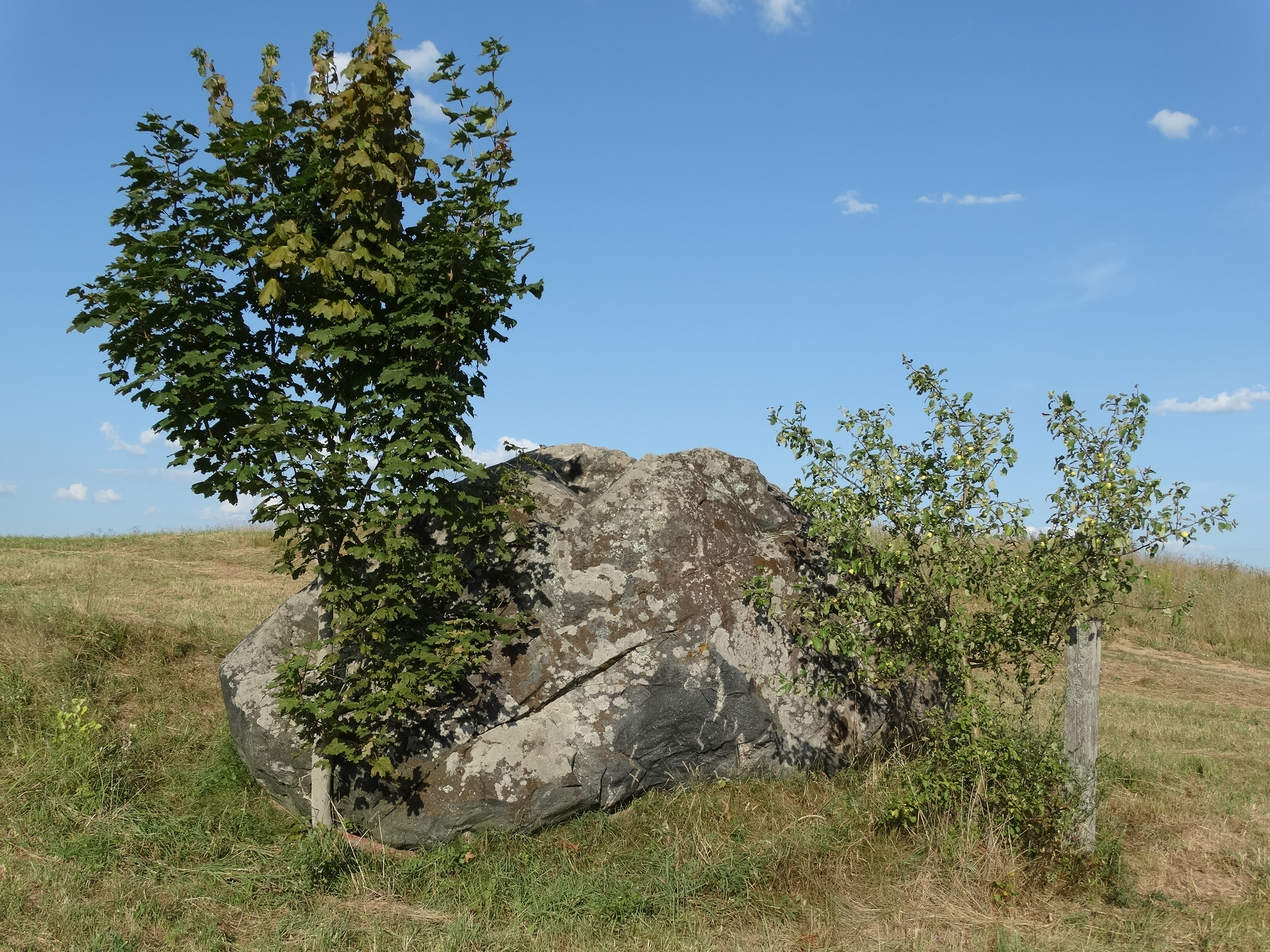 Kreiviškiai Stone, Molėtai district, Lithuania